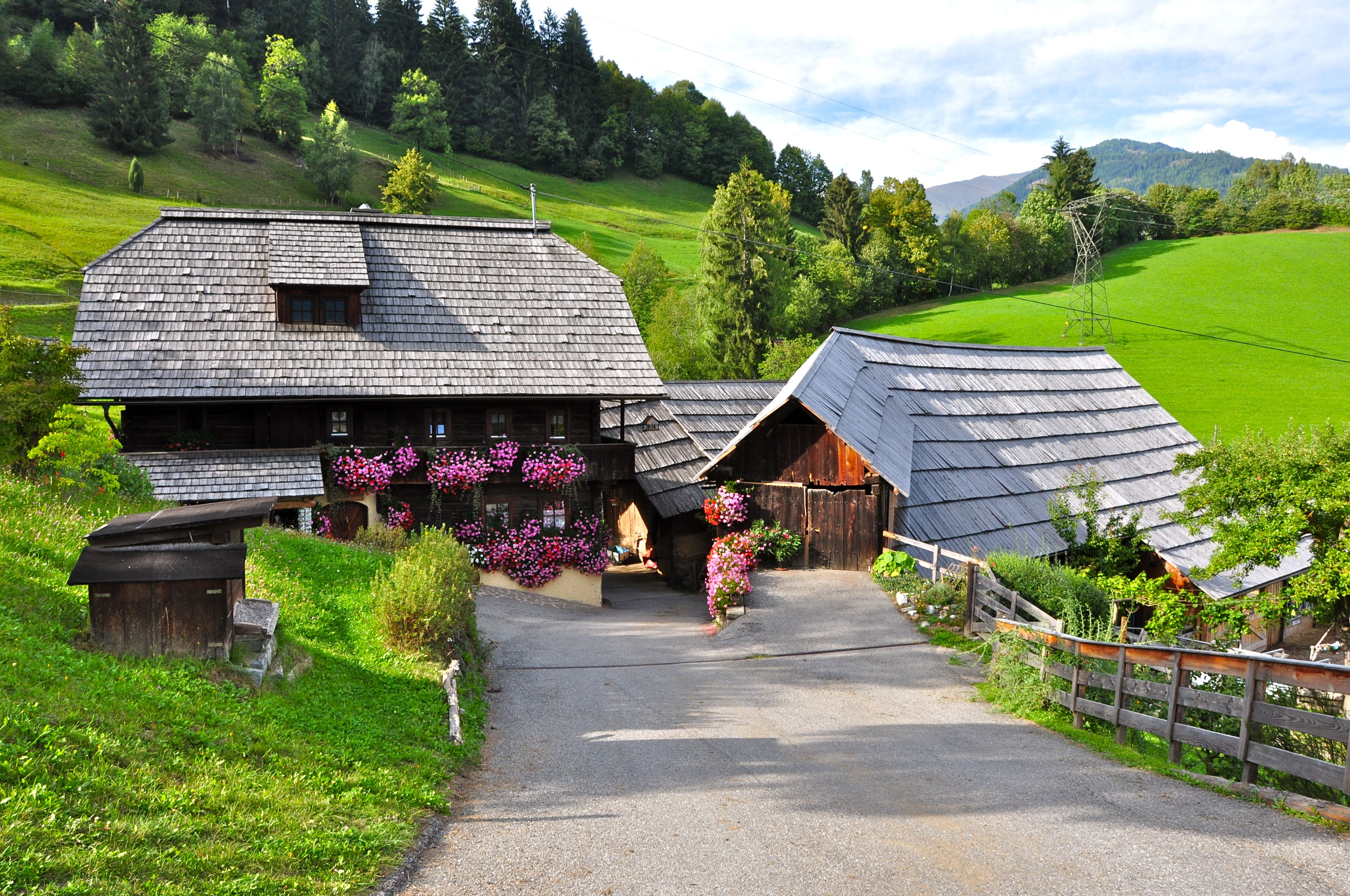 Farmhouse "Stoffl" at Dabor #5, municipality Radenthein, district Spittal an der Drau, Carinthia, Austria